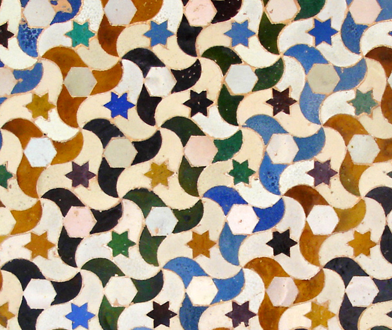 Digitally enhanced photograph of a wall tiling at the Alhambra, in Granada, Spain, illustrating wallpaper group "p3"